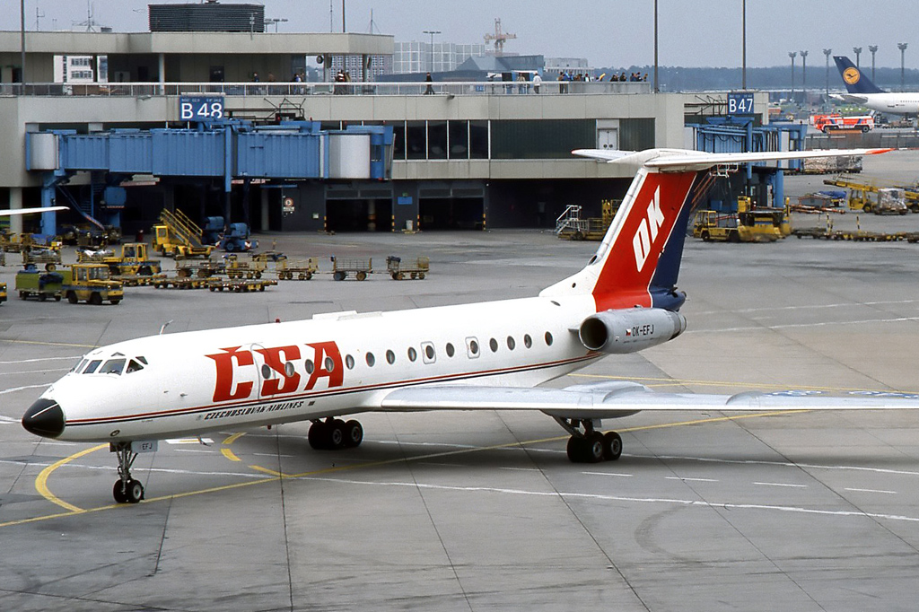 OK-EFJ Tu135 CSA